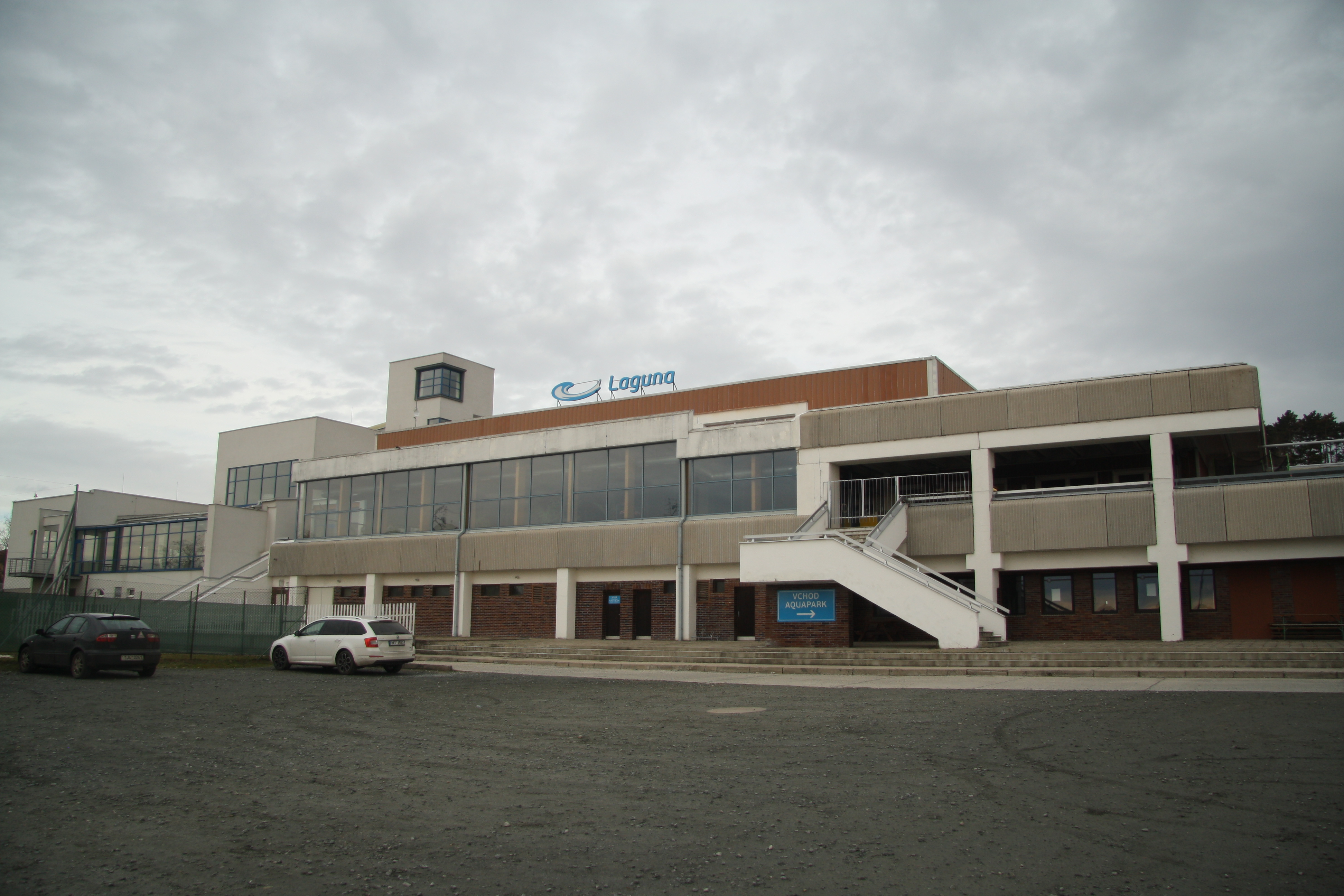 Building of Laguna Aquapark in Třebíč, Třebíč District.